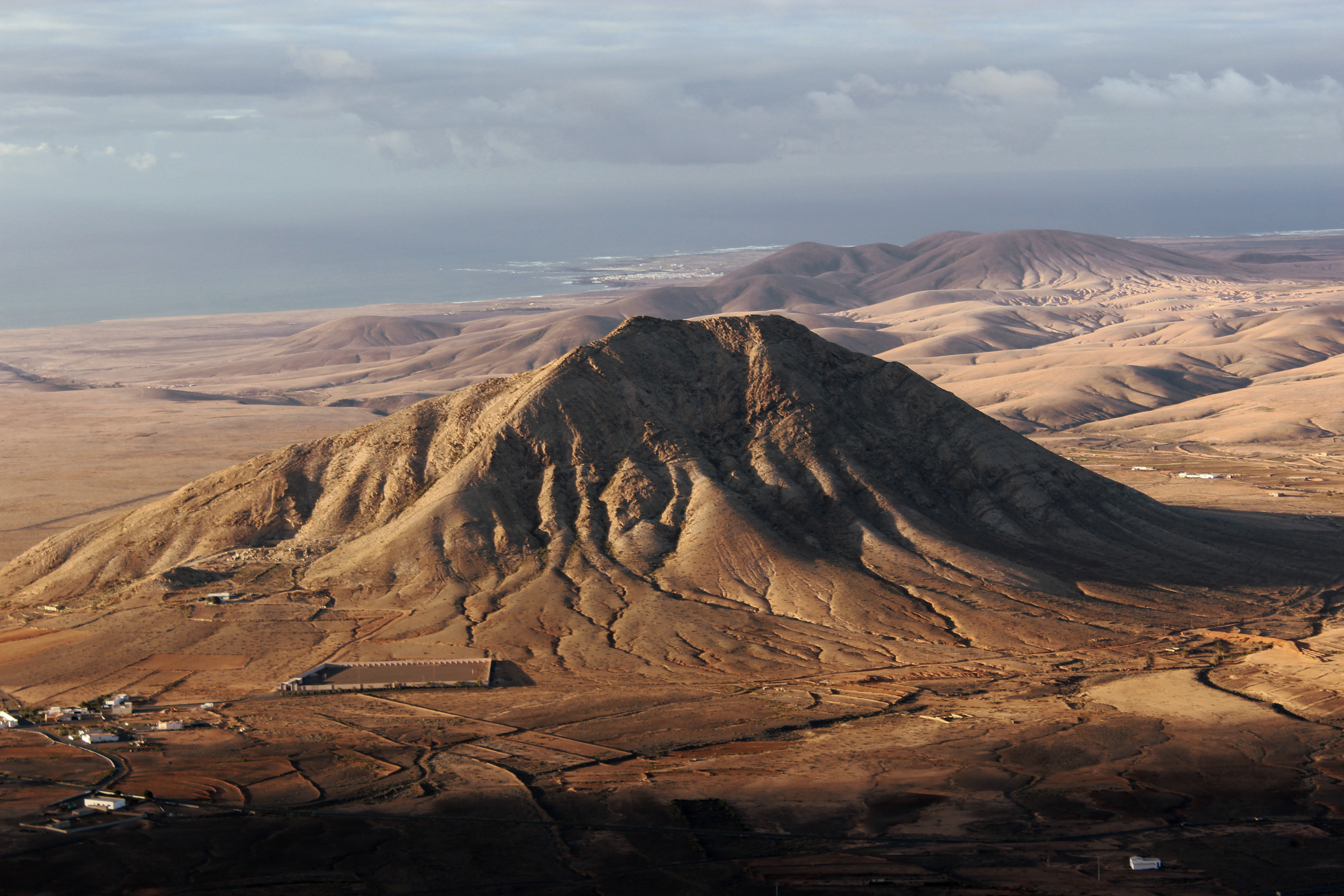 Montaña de Tindaya viewed from Montaña de La Muda, in Fuerteventura, Canary Islands, Spain.